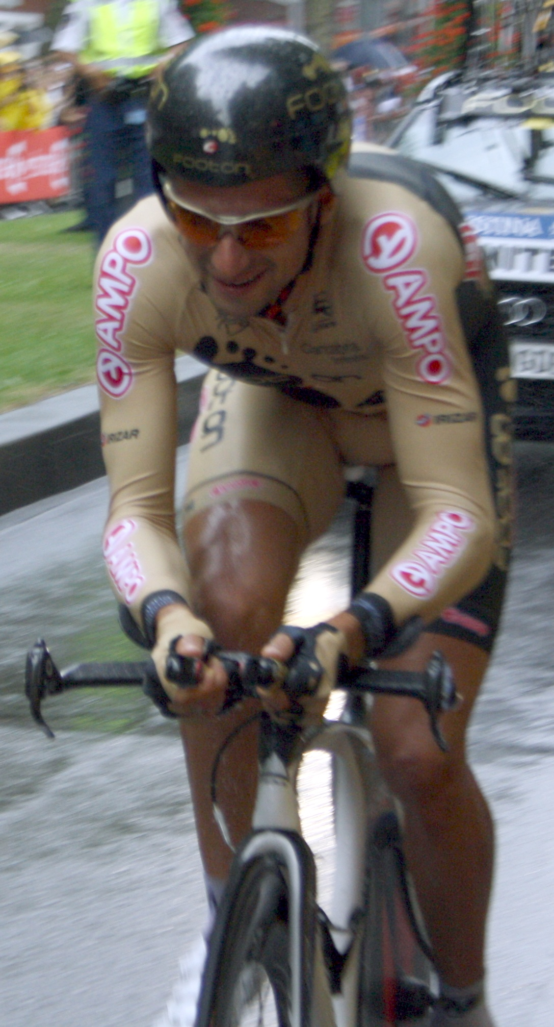 José Alberto Benítez at the prologue of the 2010 Tour de France in Rotterdam